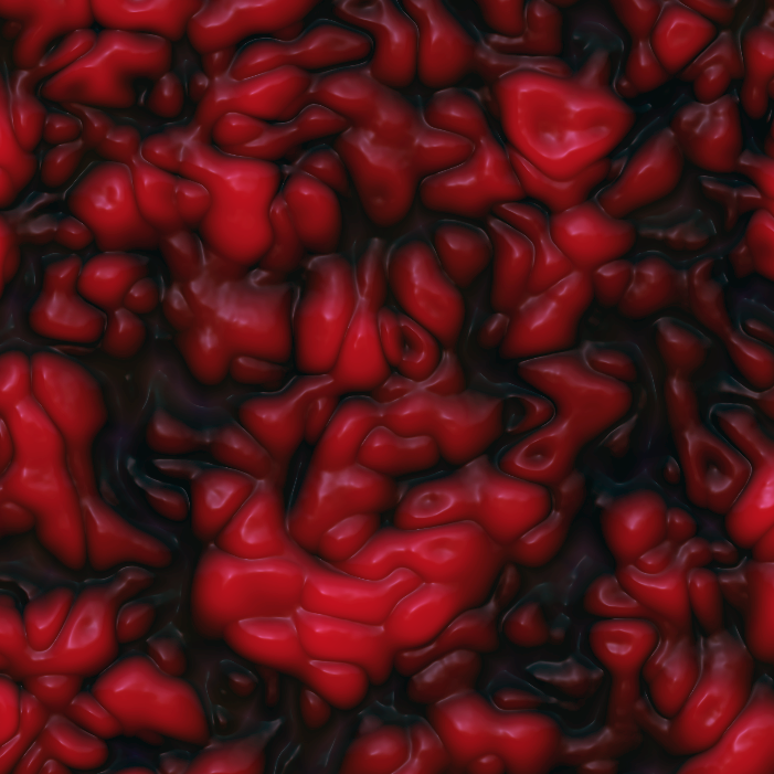 made with GraphicDesignerToolbox